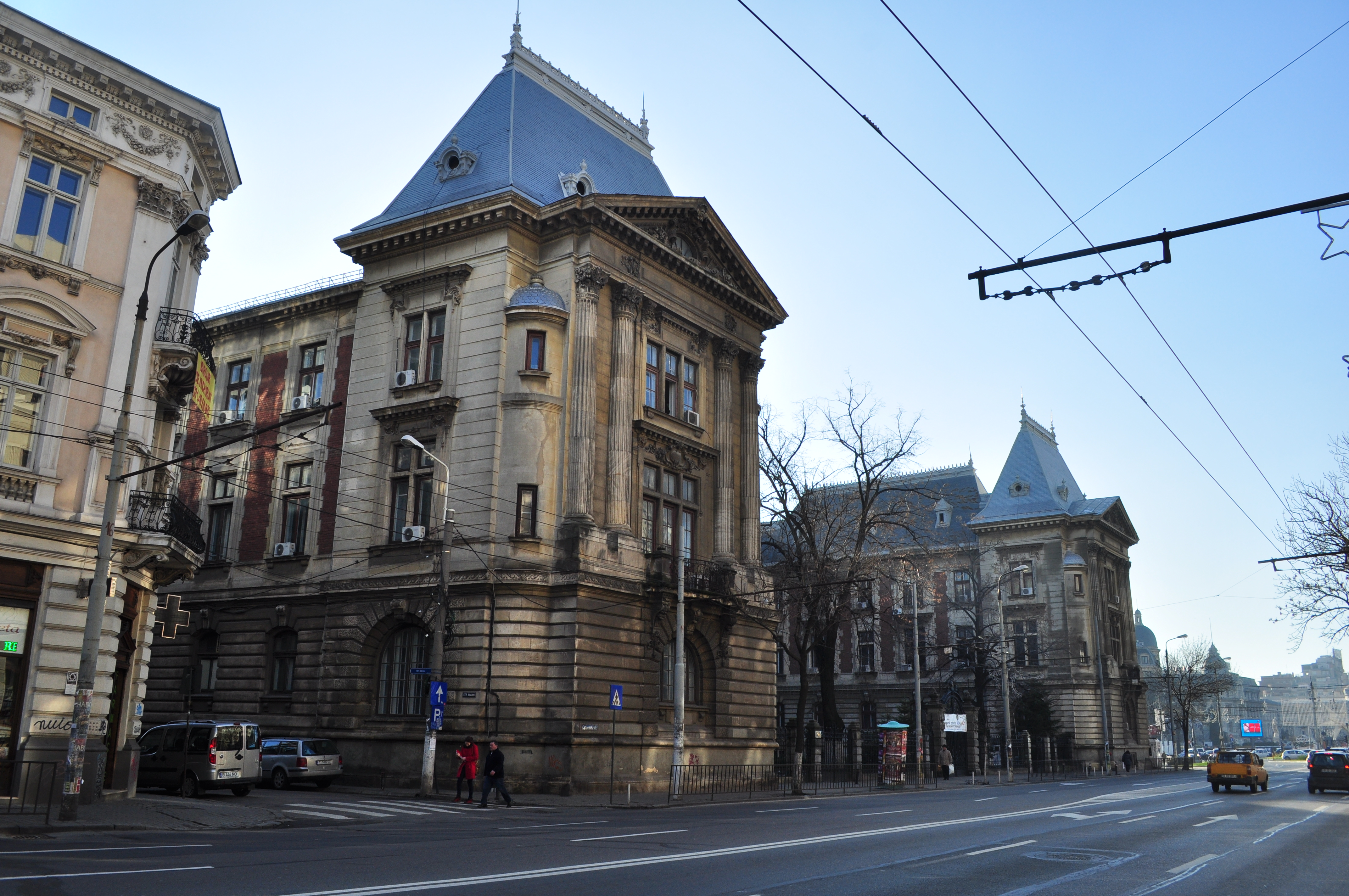 Unidentified buildings in B-dul Carol I, Bucharest, Romania near Piaţa Universitate. I believe these buildings are associated with the University of Bucharest.